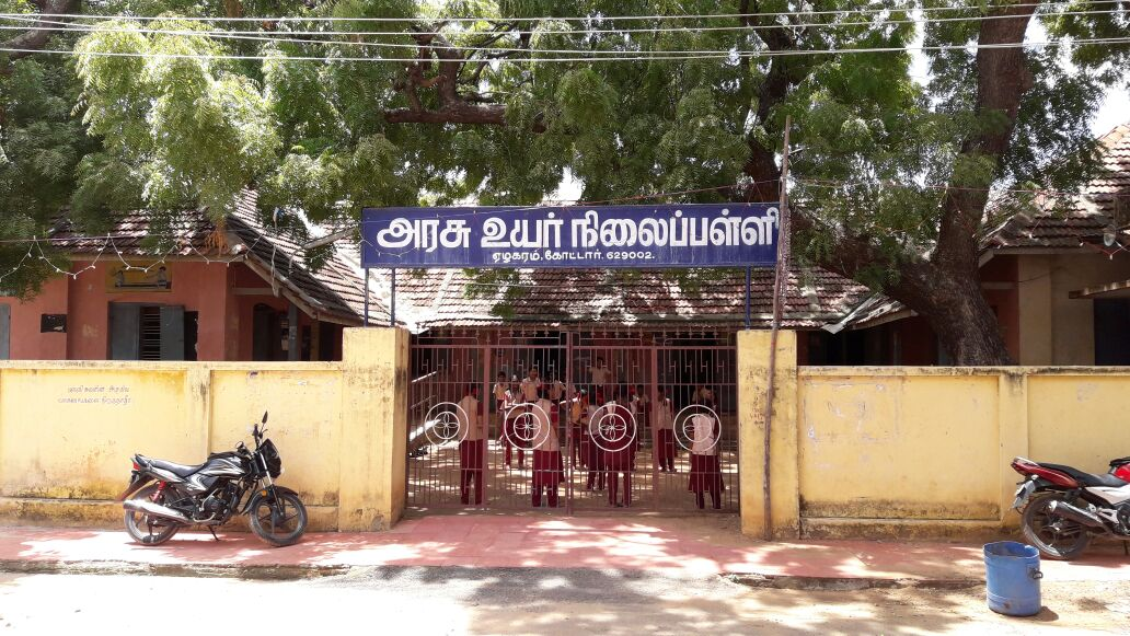 entrance of the school